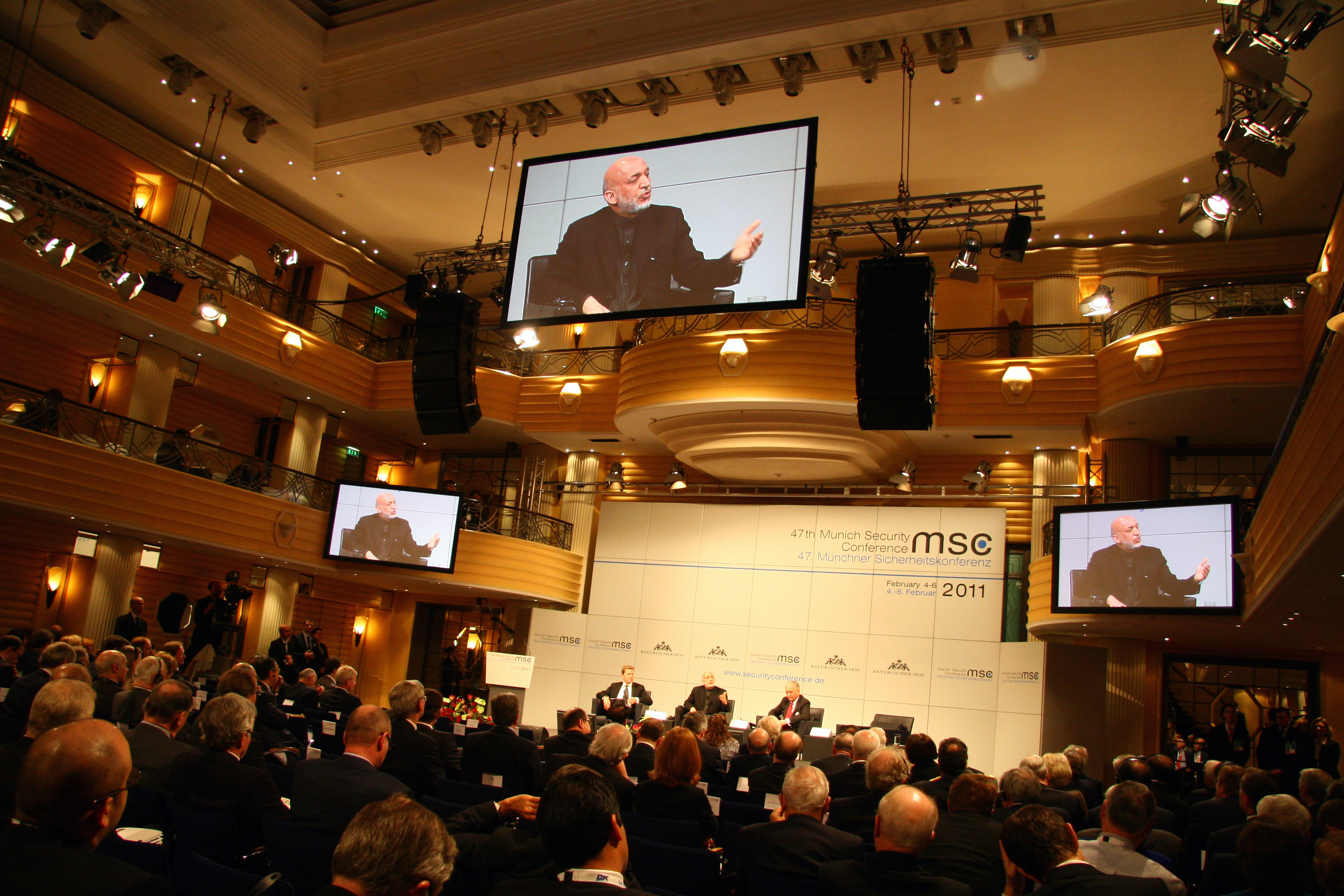 47th Munich Security Conference 2011: Impressions Conference hall on Sunday.